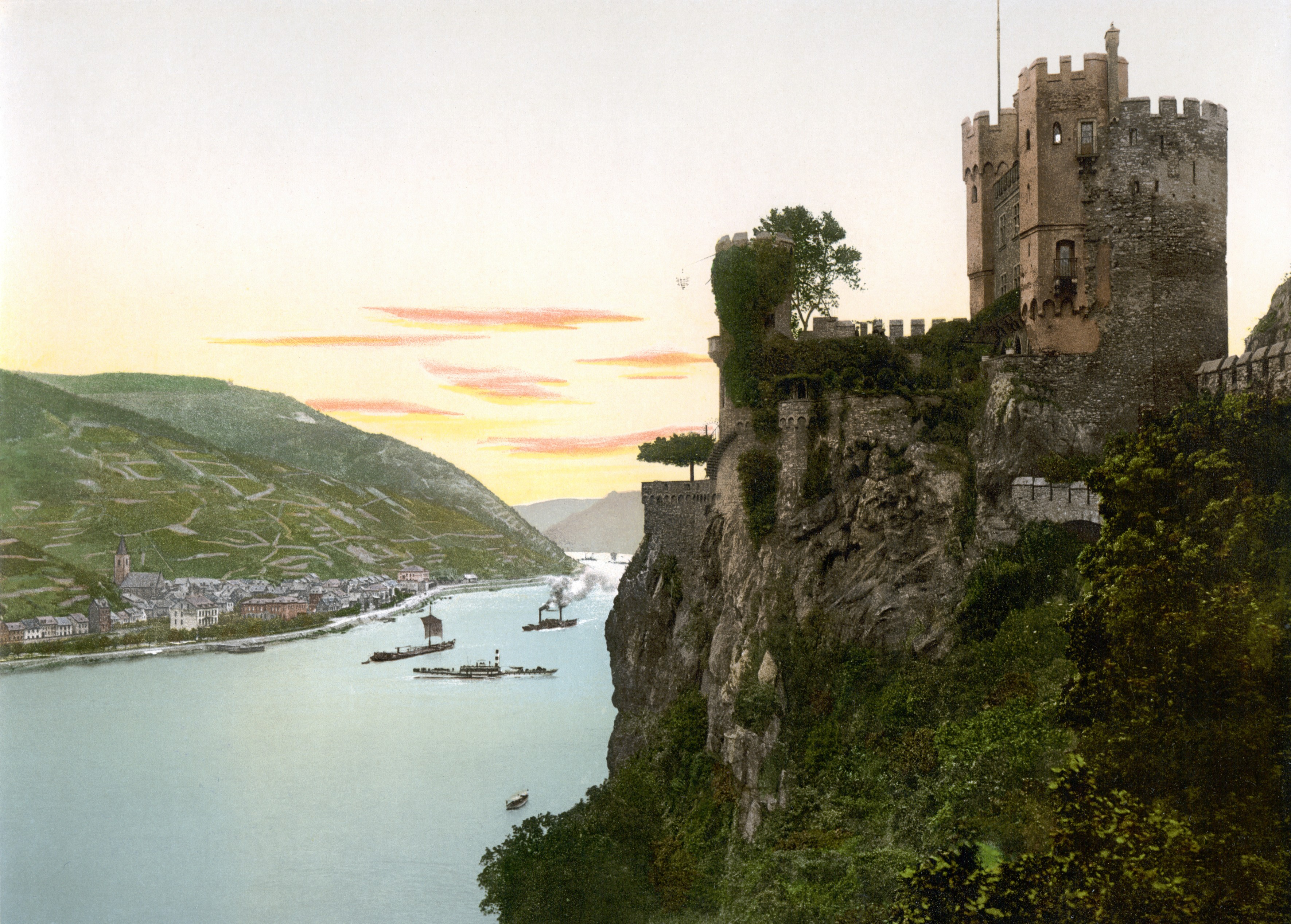 Rheinstein Castle - view from north